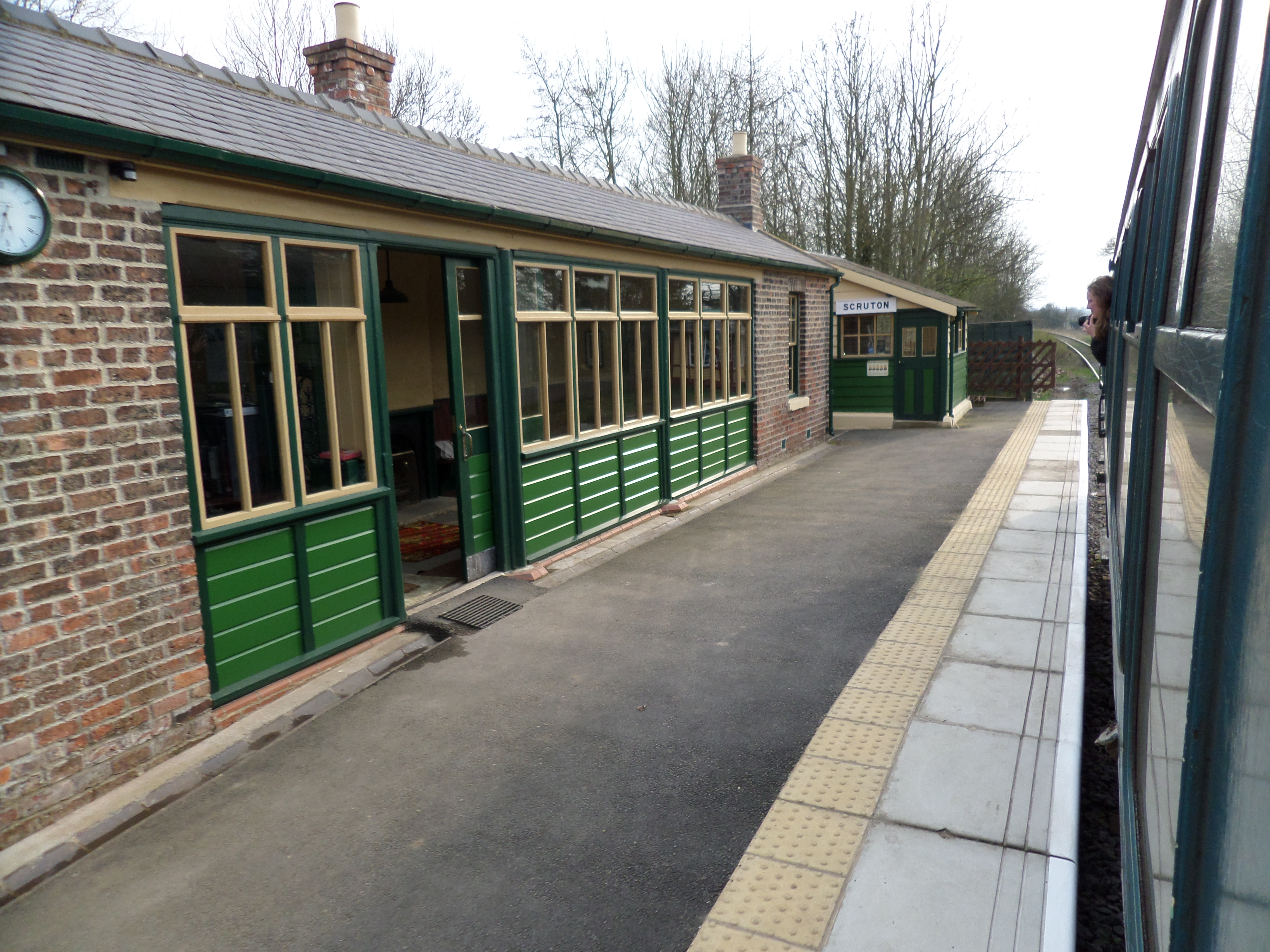 Scruton railway station, Wensleydale Railway, North Yorkshire, England. Restored as an educational resource in 2014.